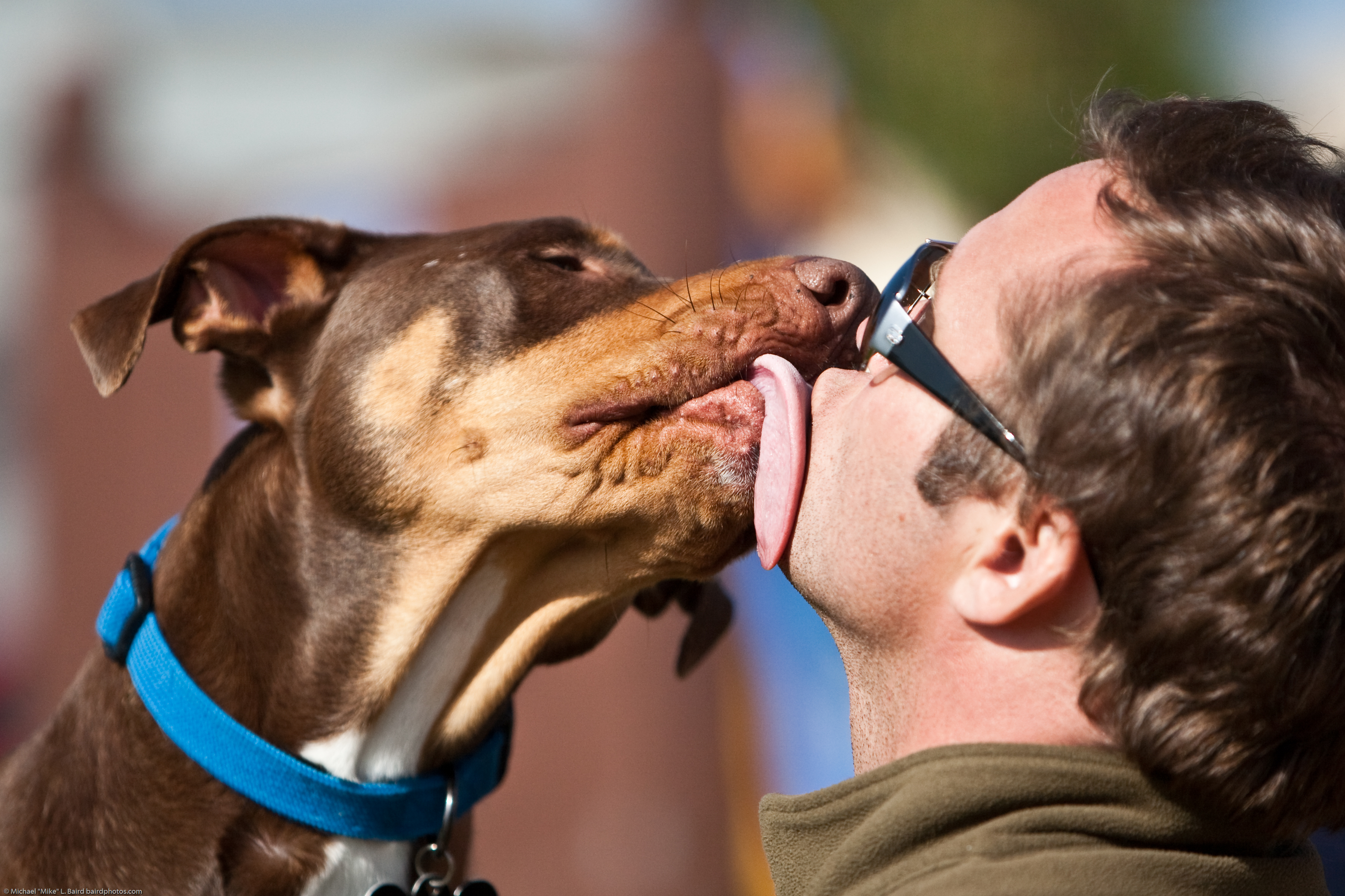 Is a dog's mouth really cleaner than a human's? Jason Edward's dog Duke lays on a big sloppy wet tongue kiss. Adjacent, Jason's girlfriend Kari Kittinger karikittinger [at] gmail d o t com. Dog show in Morro Bay, 10 May 2009. Best of Bay Pooch Pageant Sponsored by Fidelity National Title Company and hosted by Jenny Brantlee. $5 donation per pooch proceeds for benefit of the very successful Mutt Mitt program for Morro Bay and nearby area's parks and beaches. The Mutt Program is run by Sandra and Curt Beebe - and is one of the most successful and impactful volunteer efforts in the area. Photo by Michael "Mike" L. Baird, mike [at] mikebaird d o t com, ; Canon 1D Mark III, 70-200mm f/2.8 IS, handheld. I dialed the aperture wide-open here to f/2.8 to try to blur the background and get good bokeh.